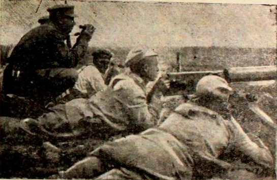 1st Kazan Rifle Division commander Yakub Chanyshev watching maneuvers